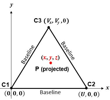 3-D Scenario. C1, C2 and C3 are known centers of circles on the x-axis. P is point whose (x,y,z) coordinates are desired based on its ranges to C1, C2 and C3.